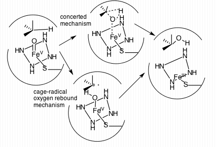 Two commonly proposed mechanisms of hydroxylation of an sp3 C-H bond.